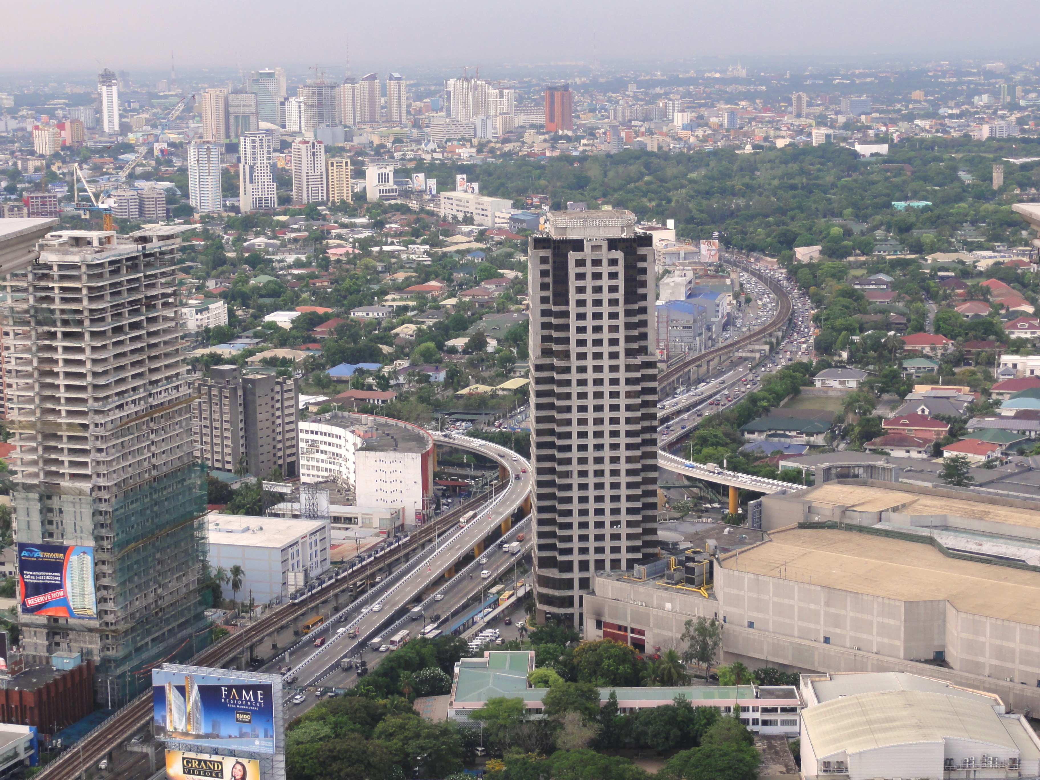 Aerial shot of EDSA-Ortigas Avenue interchange between Quezon City, Mandaluyong and Pasig as of May 2015.